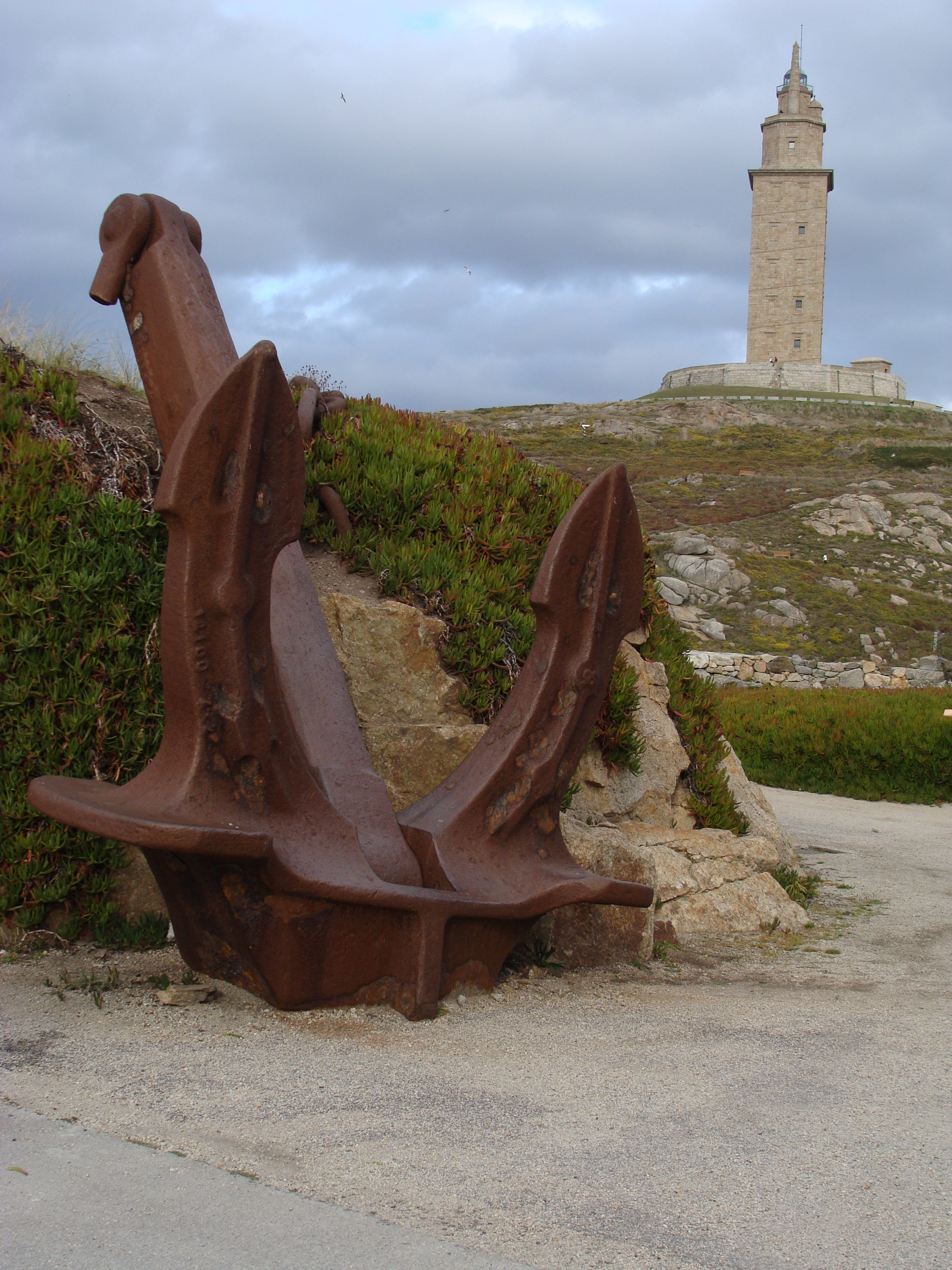 Aegean Sea's anchor, in the exterior of Aquarium Finisterrae (House of the Fishes), in Corunna, Galicia, Spain. Is rurrounded by Carpobrotus edulis, a invasive species from South Africa.